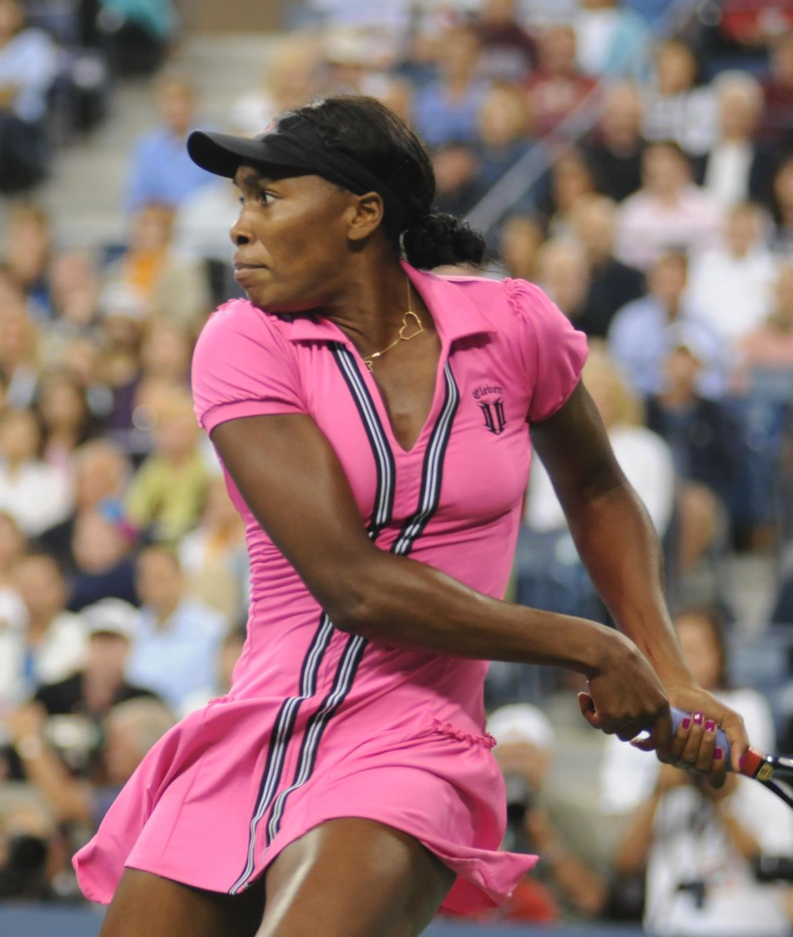 Venus Williams plays Vera Dushevina on the opening day of the US Open 2009. Cropped